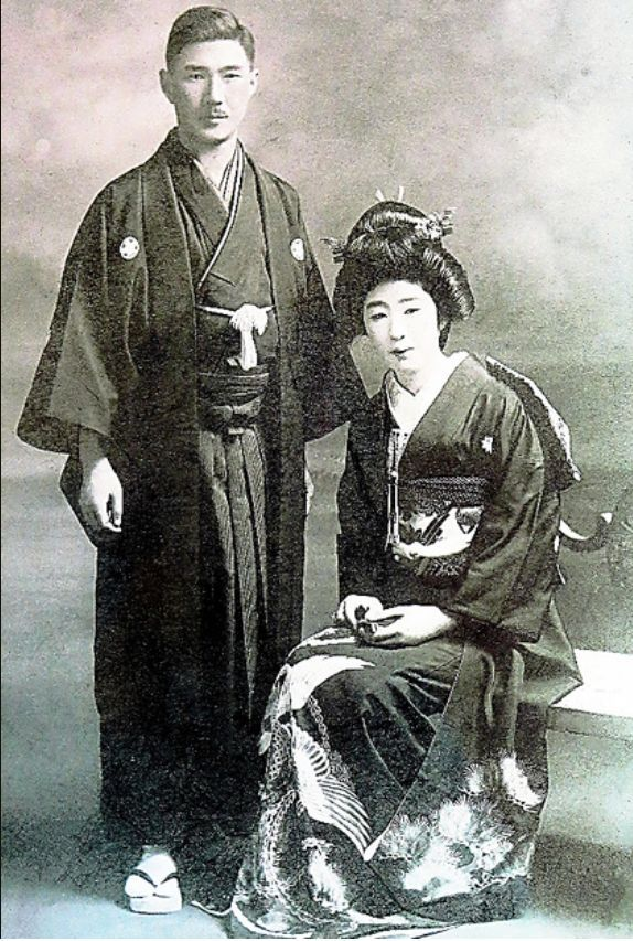 Japanese politician Kan Abe（1894－1946） and his former wife Shizuko. They are the grandparents of Prime Minister Shinzo Abe.